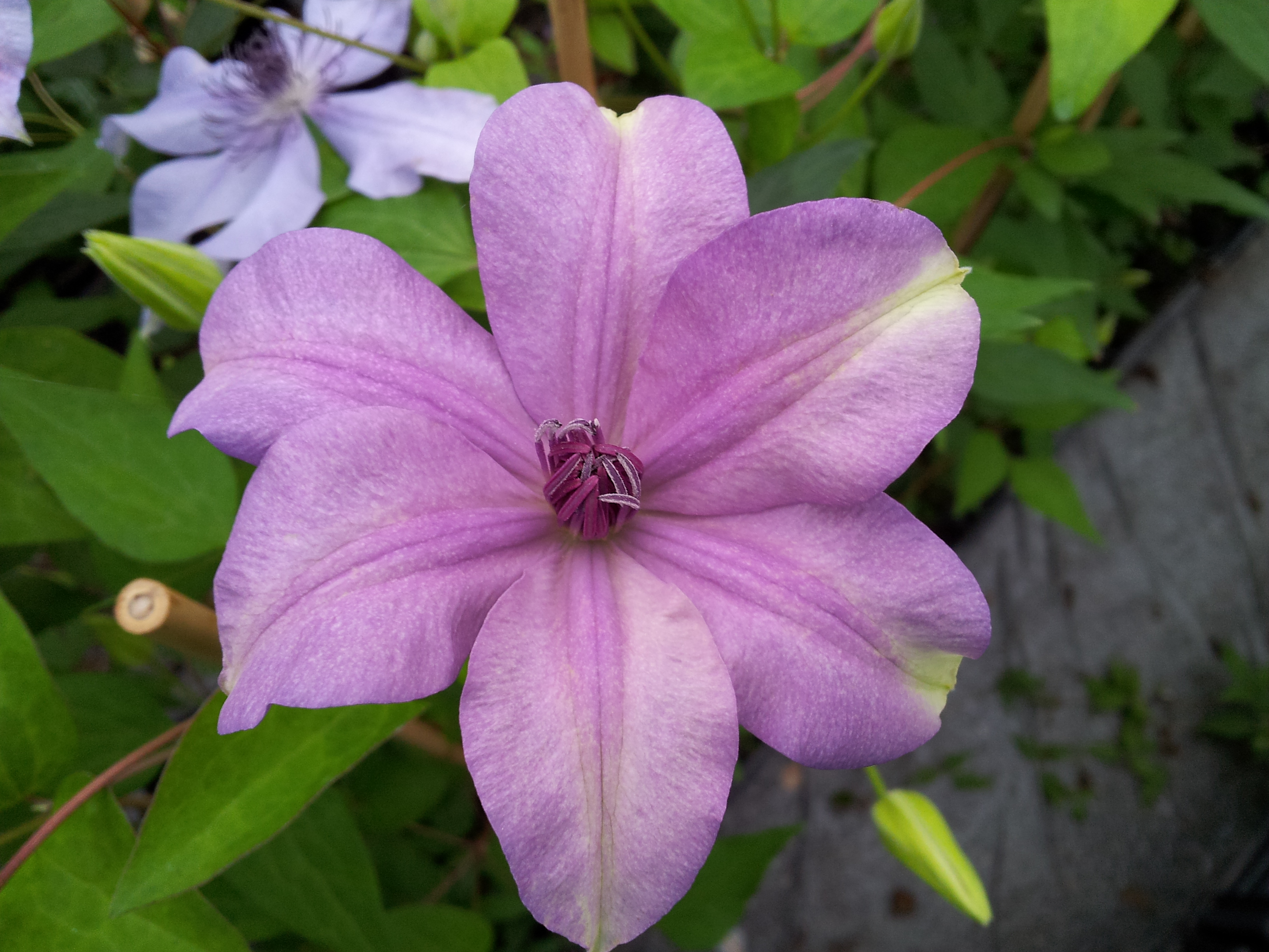 Clematis patens Moonfleet 'Evipo046'